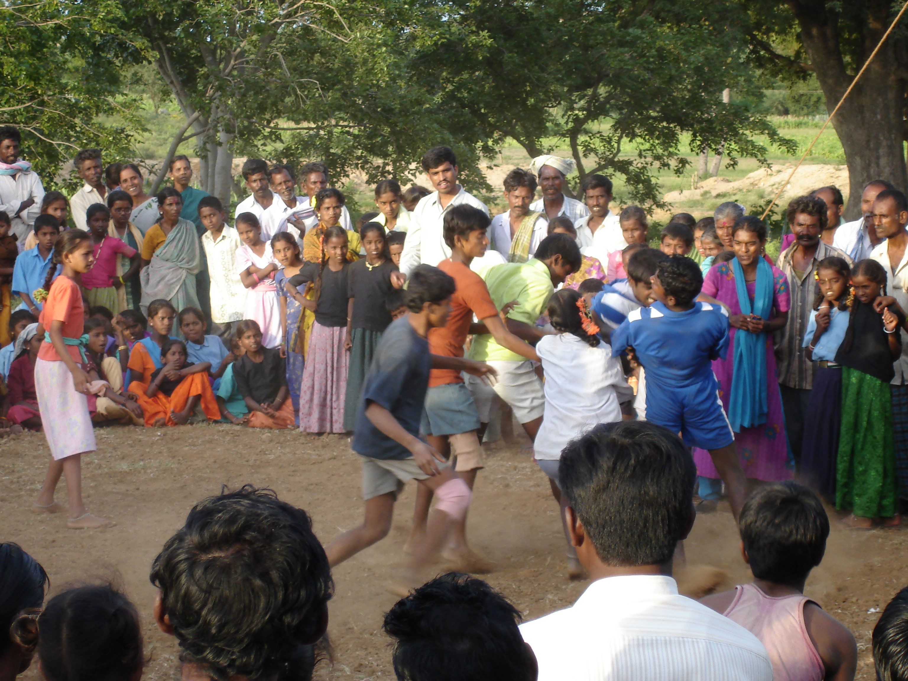 A game of kabaddi in progress in Bagepalli, Karnataka, India.